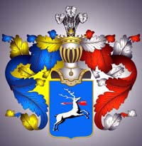 Coat of Arms of Mavrin family